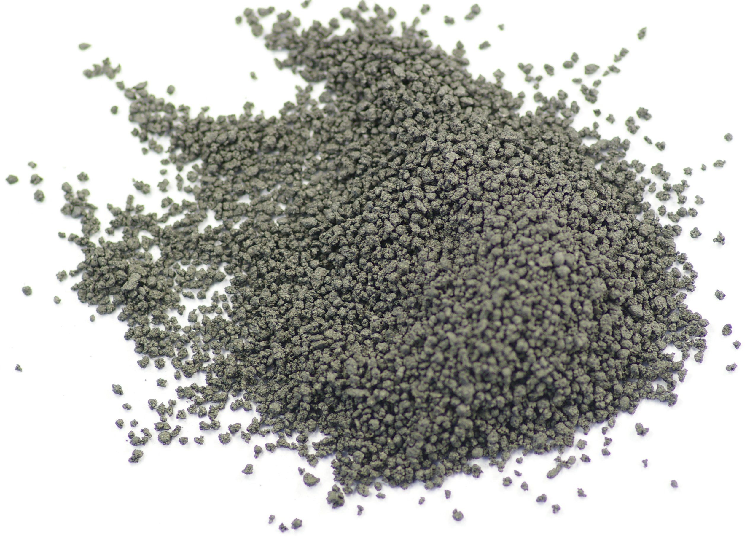 A pile of Pyrodex black powder substitute in FFG size grains.